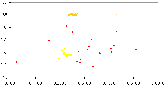 Plot of the exterior satellites of Jupiter, showing inclination (°) vs eccentricity Orange = Carme's group; Yellow = Ananke's group; Red = everything else (~Pasiphaë's group) Prepared by myself and hereby donated to the public domain.